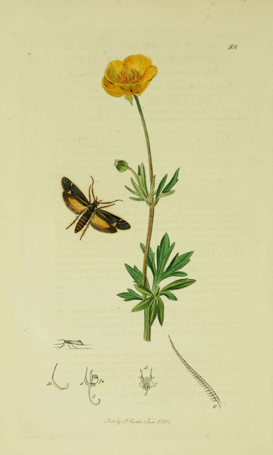 An illustration from British Entomology by John Curtis. Lepidoptera: Oecophora sulphurella or Esperia sulphurella (Yellow Underwinged Thick-horn).